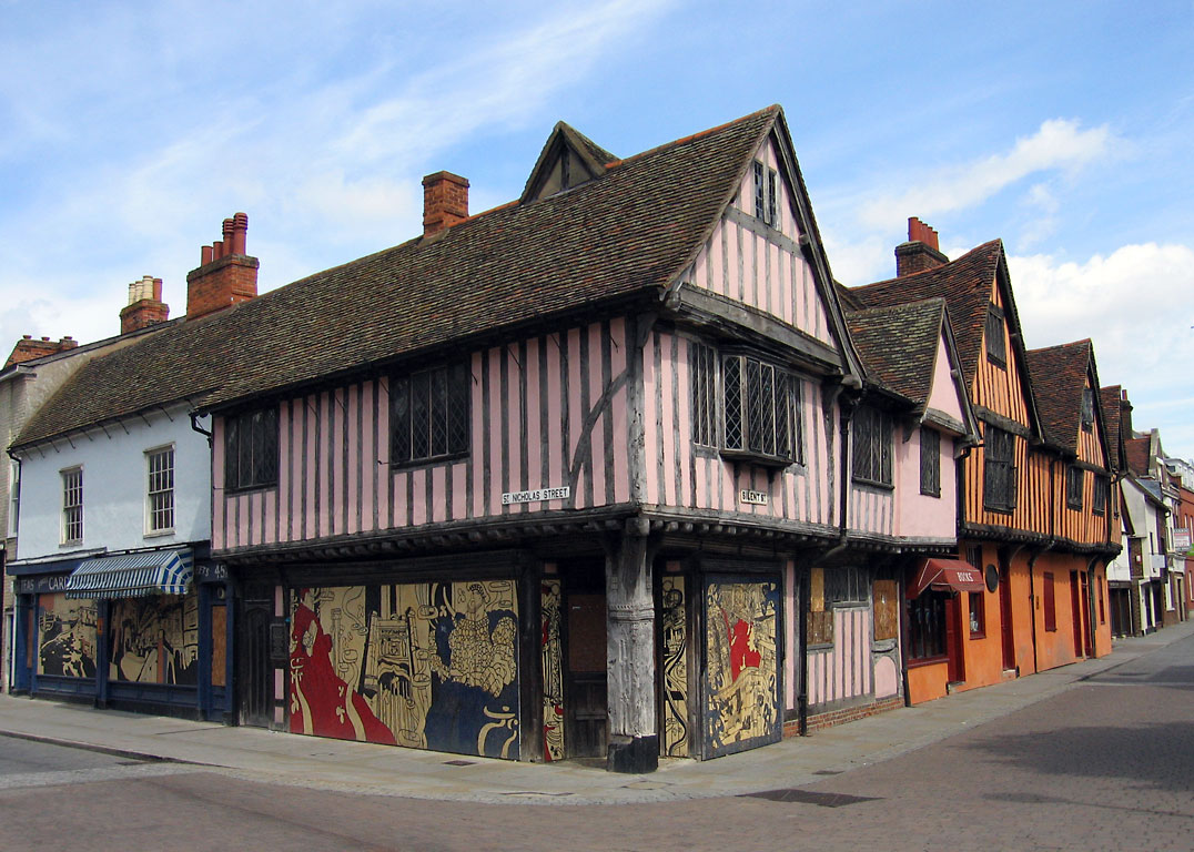 45 and 45A St Nicholas Street, Ipswich, Suffolk: a 17th-century timber-framed building at the junction with Silent Street. A plaque on the building on the corner explains that it is thought to have been standing when Thomas Cardinal Wolsey grew up in a house on the other side of the road. The organge building in the background is 3–9 Silent Street.